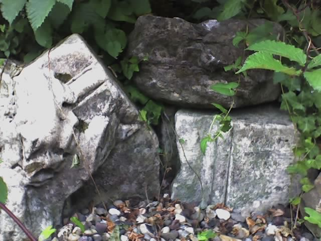 A picture of the original stones of Howden Minster, Howden, East Riding of Yorkshire, England, taken away from the fallen minster in 1748. These stones are in my garden, and could date back as early as the 11th century. The picture was taken by me with my cell phone.